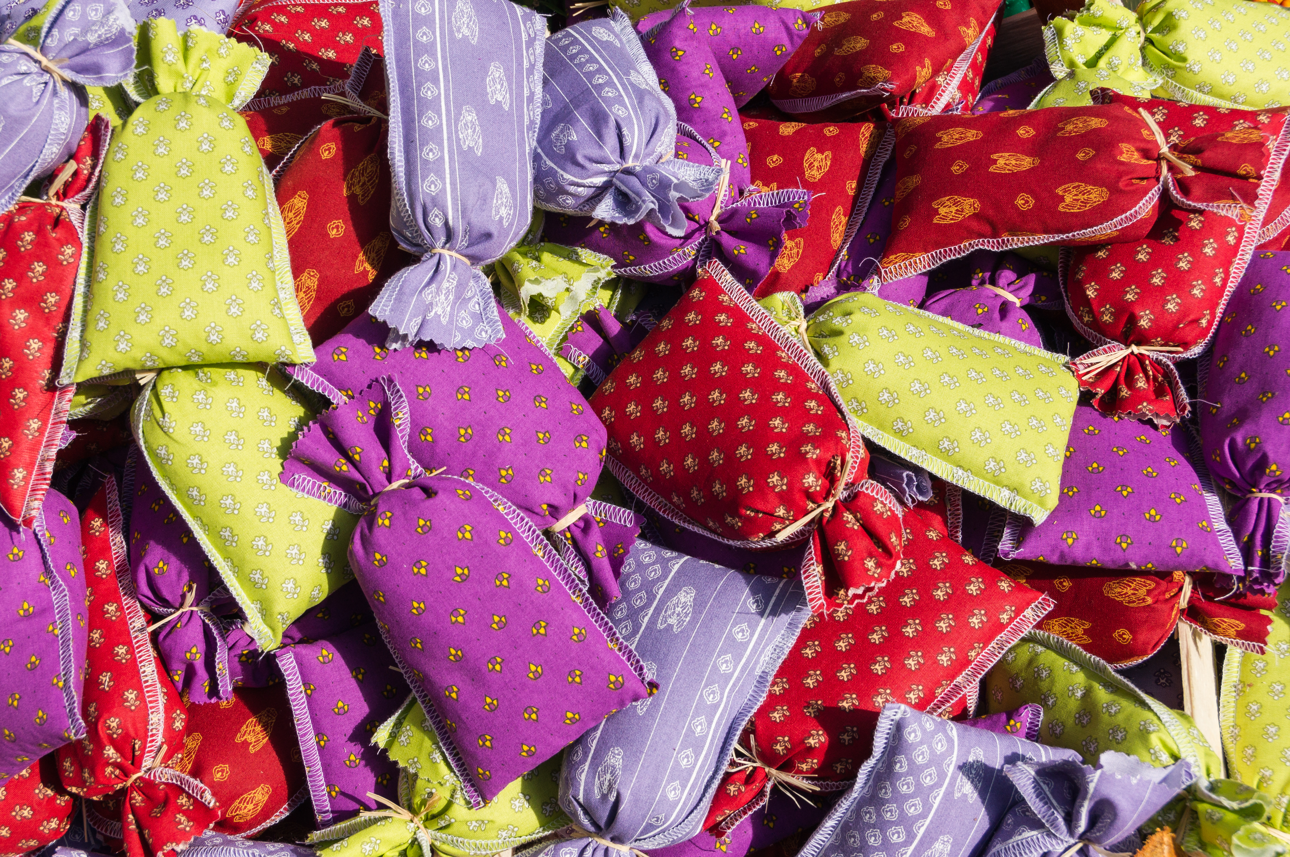 Various fragrant bags, Viktualienmarkt, Munich, Bavaria, Germany.